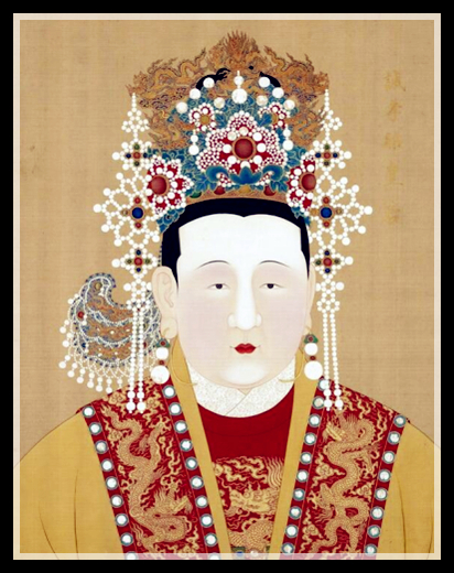 Portrait of Empress Xiaozhao of Ming Dynasty China